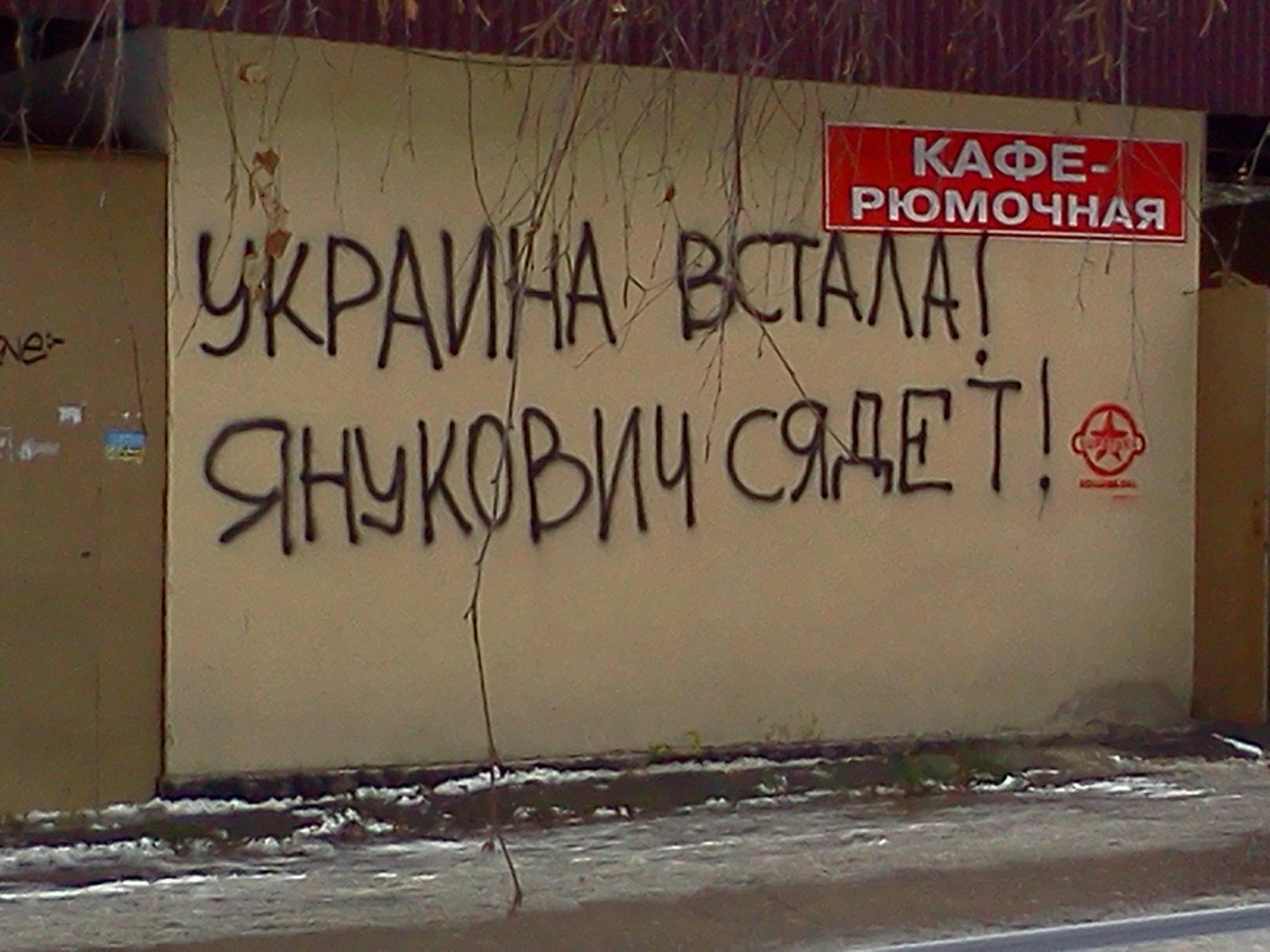 Graffiti in Kharkiv, Ukraine (in Russian): "UKRAINE rose UP! YANUKOVYCH will be sent DOWN! [to prison]"